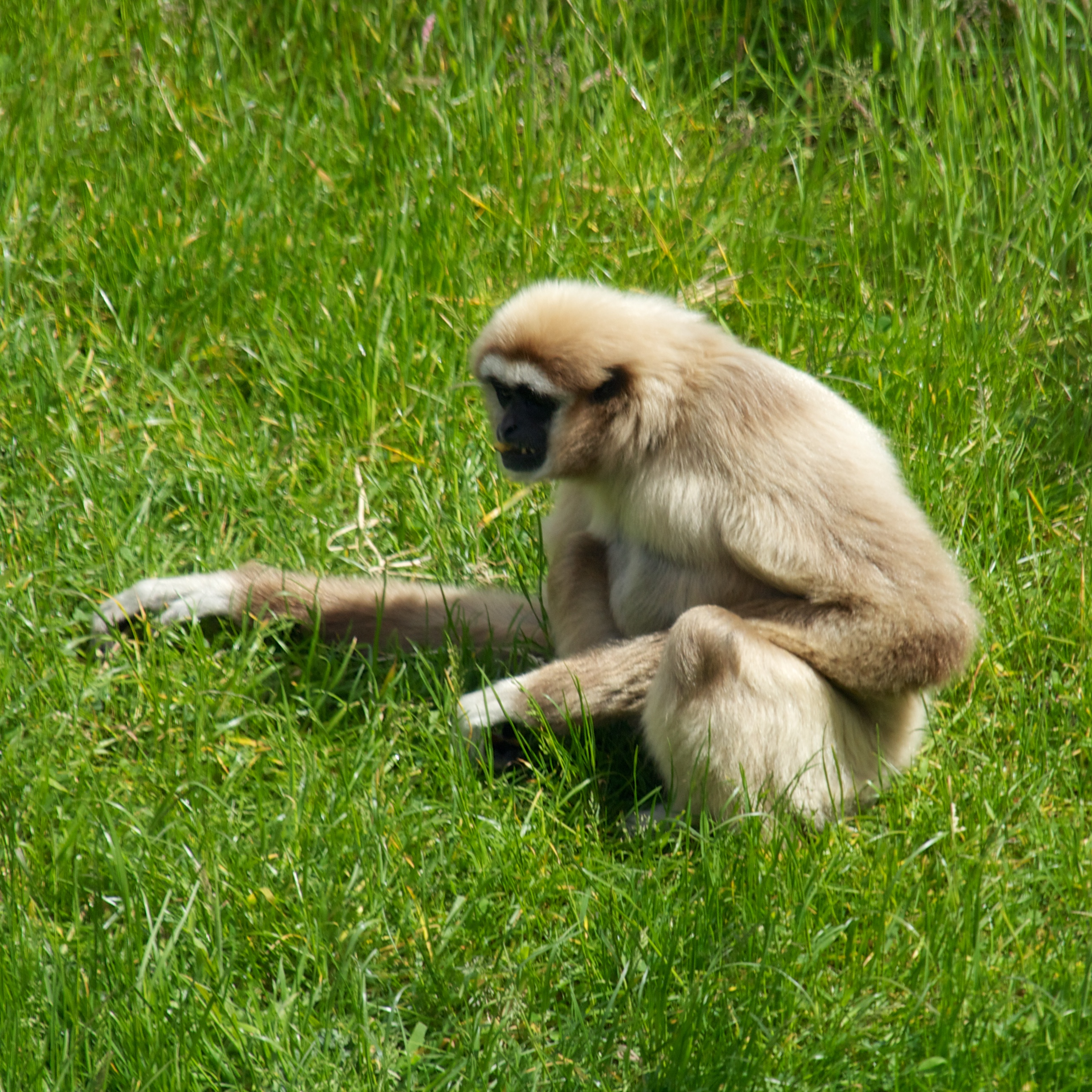 Lar Gibbon. Hylobates lar. At Chester Zoo